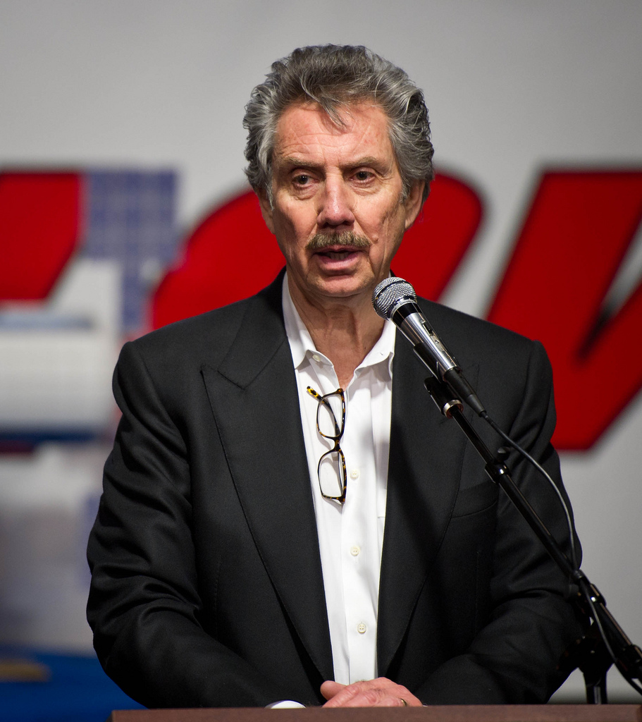 Bigelow Aerospace President Robert Bigelow talks during a press conference shortly after he and NASA Deputy Administrator Lori Garver toured the Bigelow Aerospace facilities on Friday, Feb. 4, 2011, in Las Vegas. NASA has been discussing potential partnership opportunities with Bigelow for its inflatable habitat technologies as part of NASA's goal to develop innovative technologies to ensure that the U.S. remains competitive in future space endeavors. Photo ID: 201102040005HQ